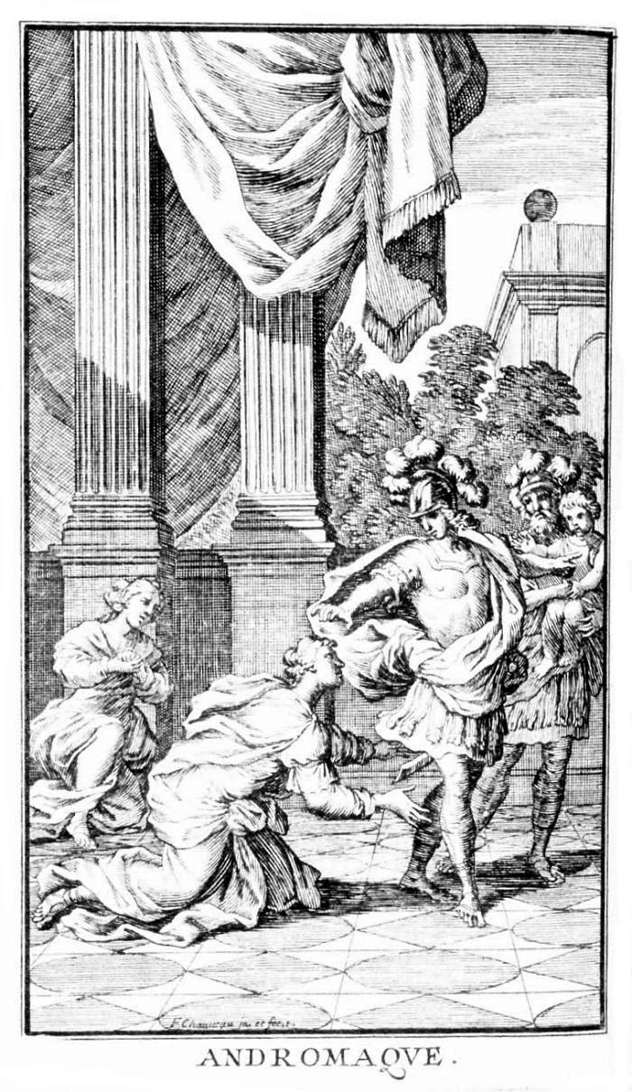 Frontispiece depicting Act III, scene 6, of Jean Racine's 1667 play Andromaque, in Oeuvres de Racine (2 volumes), vol. 1, published by Claude Barbin in Paris in 1676 (etching; 8 cm x 12 cm; printed on paper; Trinity College, Dublin; Aspin collection, cat. no. OLS B-6-763)